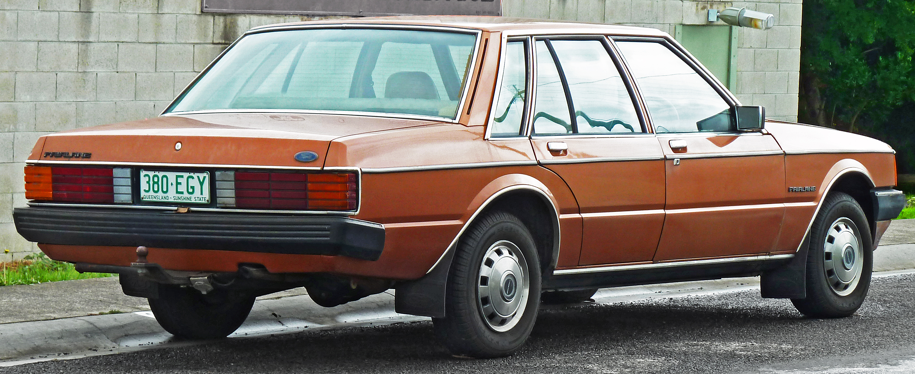 1982–1984 Ford Fairlane (ZK) sedan. Photographed in Jamberoo, New South Wales, Australia.